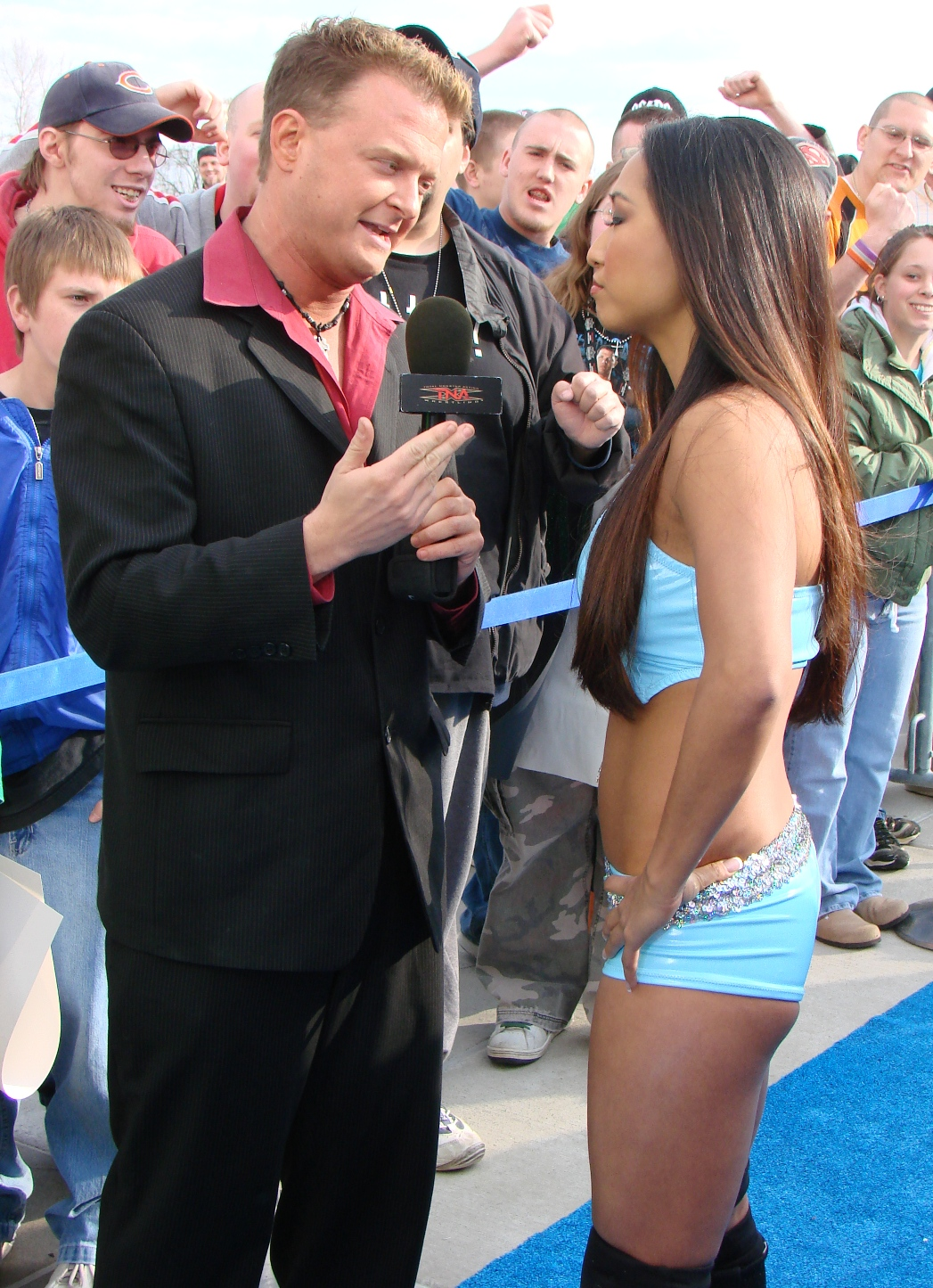 Jeremy Borash and Gail Kim at TNA Lockdown 2007. Family Arena, St. Charles MO